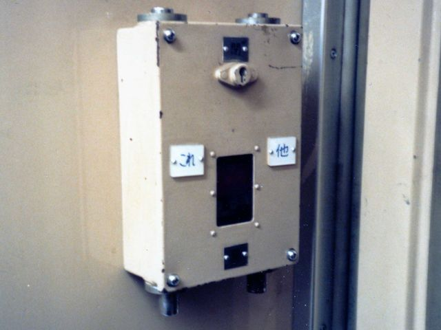 Door switch of deck of EMU 165 by JR Central. As for "This", this door and "Another" act on other doors.